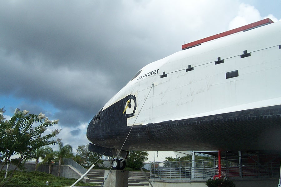 This photograph of the Space Shuttle mockup (named Explorer) at the Kennedy Space Center was taken by me in July 2005.